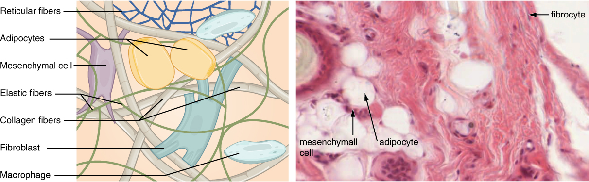 Illustration from Anatomy & Physiology, Connexions Web site. Jun 19, 2013.